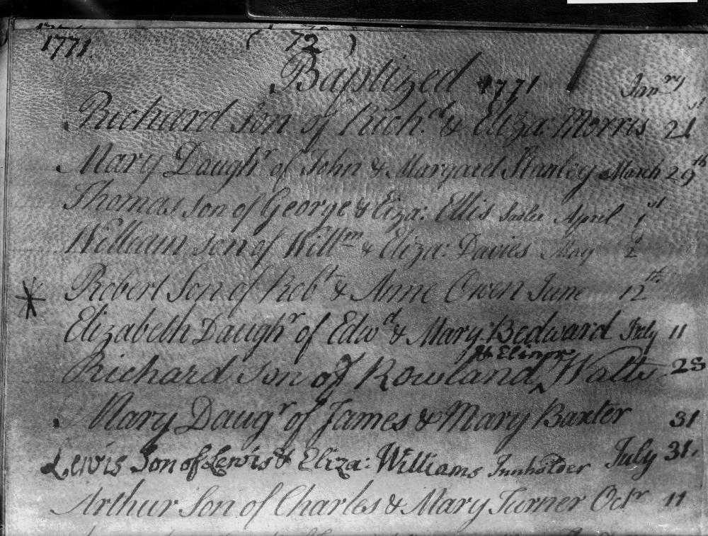 Abstract: Newtown Parish Register for births with an entry for Robert Owen, born June 12th 1771